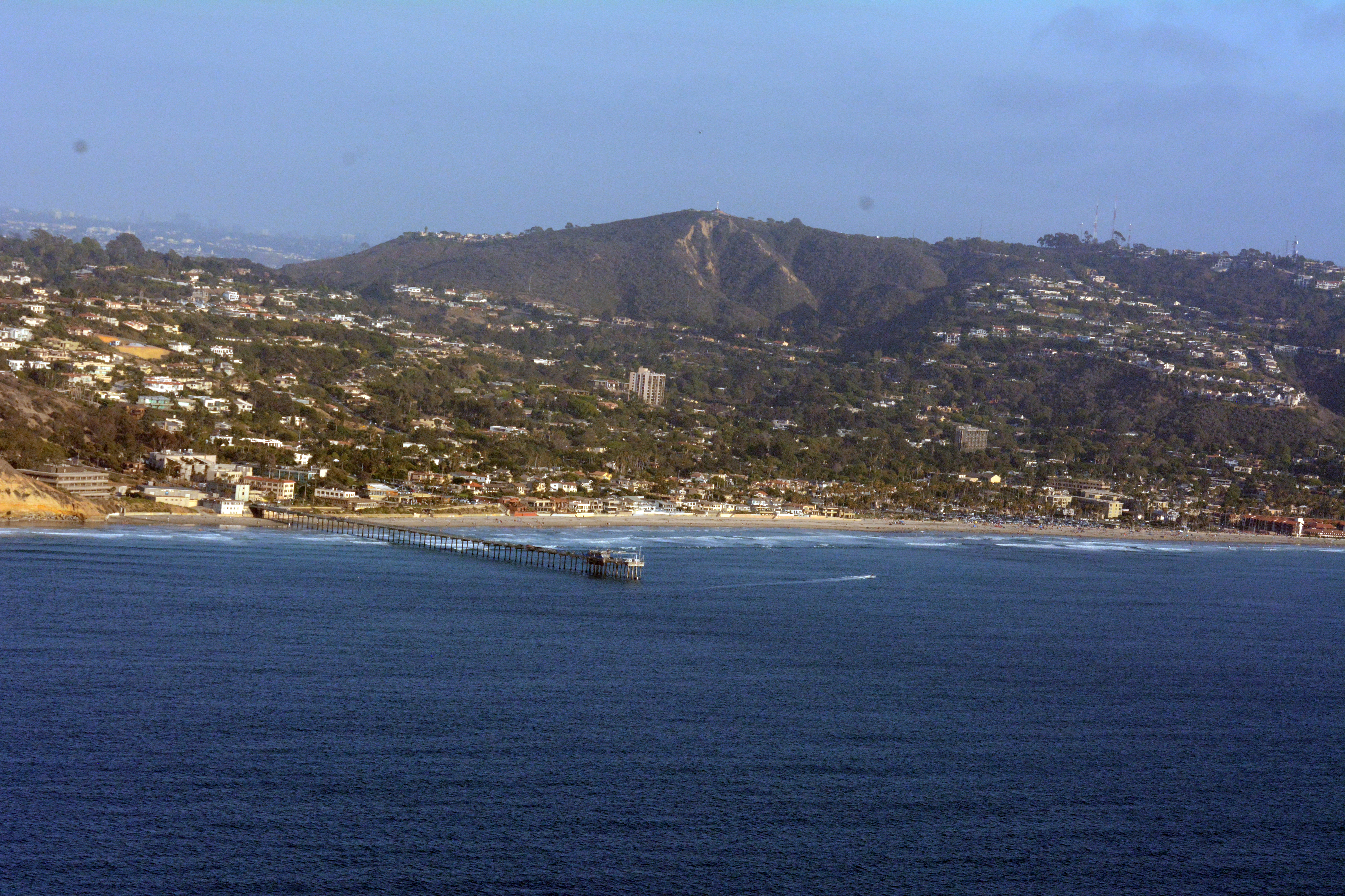 Scripps Institution of Oceanography pier photo D Ramey Logan